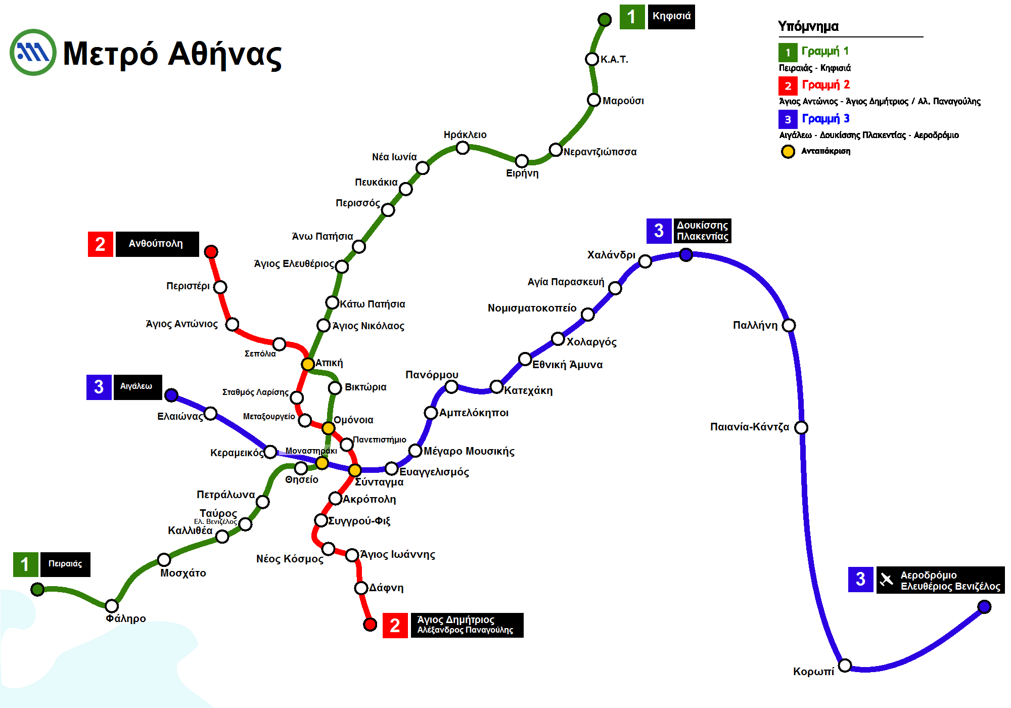 new stations in operation